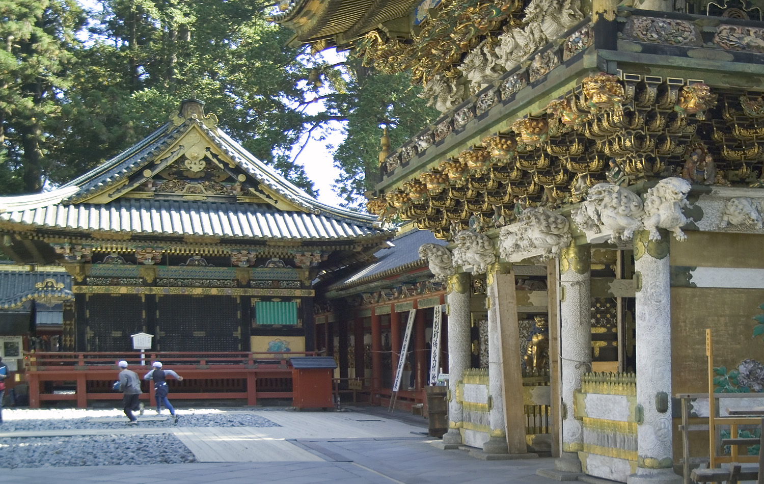 The building at right is the Yomeimon ("Great Gate") and the building ahead at left is the Kagura-den at Toshogu, Nikko, Tochigi Prefecture, Japan, a UNESCO World Heritage Site. The Yomeimon has four white pillars. The second from the right is the upside-down pillar. I took the photo and contribute it to the public domain. However, people and institutions may retain rights to images in it. Compare the early photograph to this one: Early photo This photo